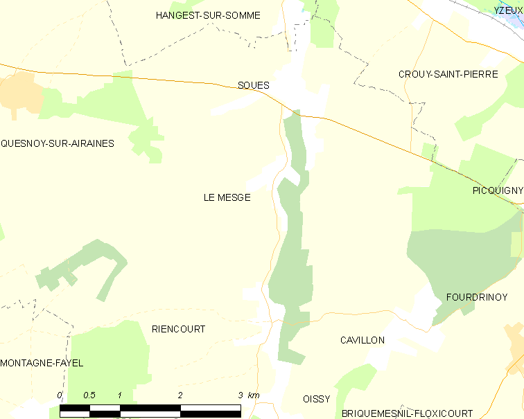 Map of French municipality Le Mesge